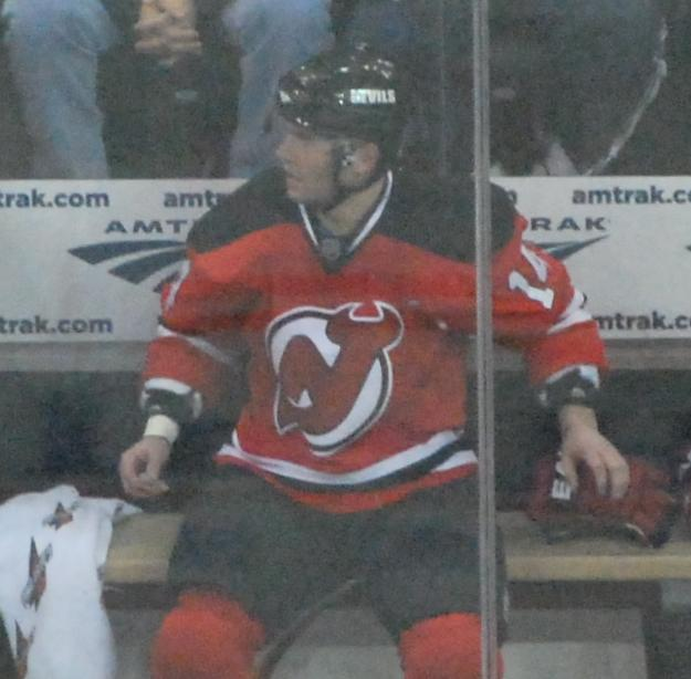 A cropped photo of Brian Gionta